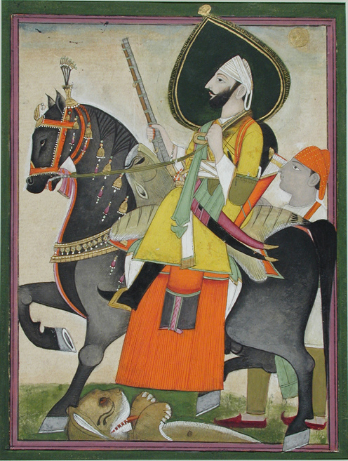 Bakhtawar Singh conquers a lion. Alwar, ca. 1800, San Diego Museum of Art